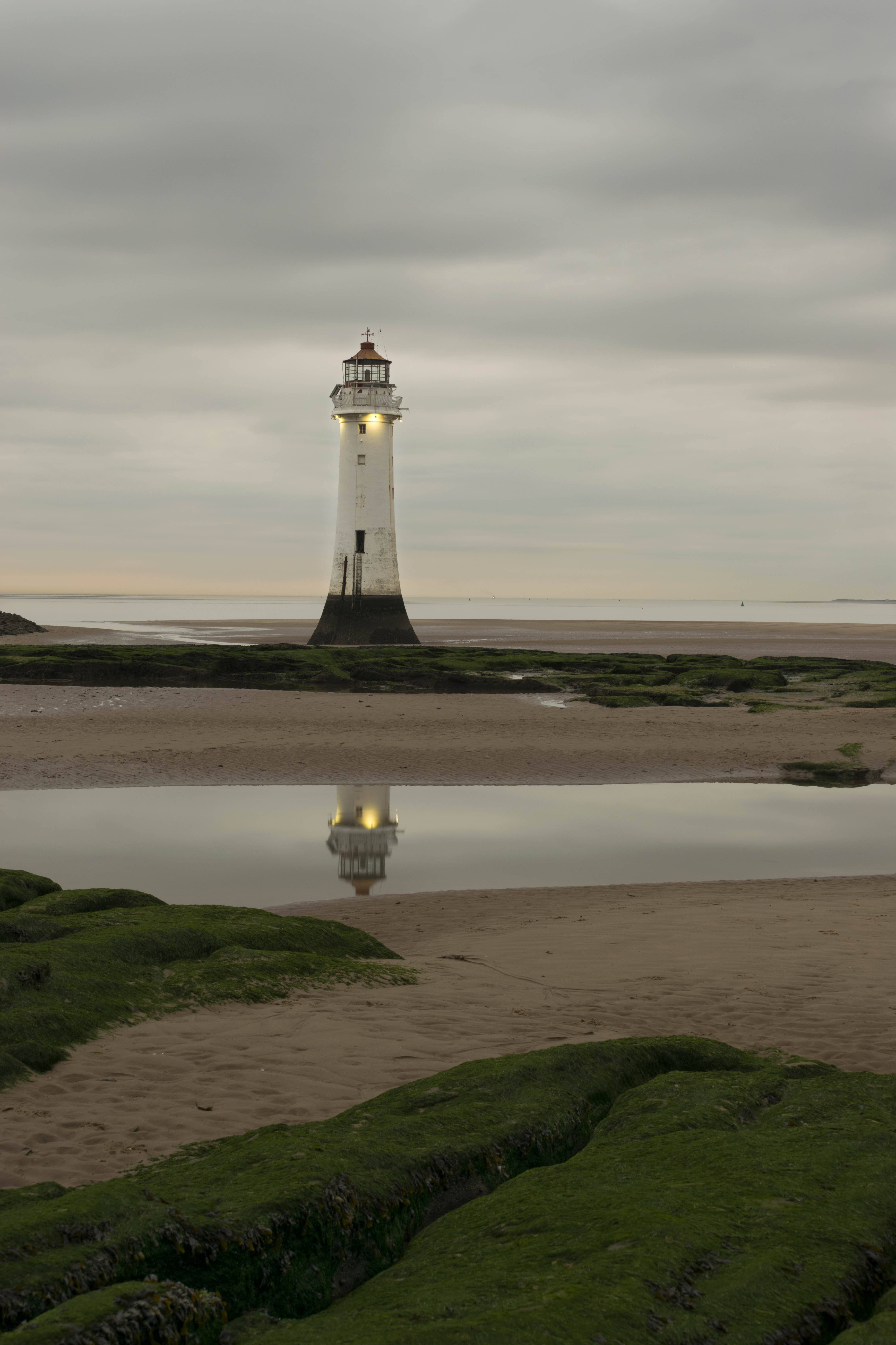 New Brighton Lighthouse or Perch Rock Lighthouse on an overcast evening of September 2018 Wikidata has entry Q16570917 with data related to this item.